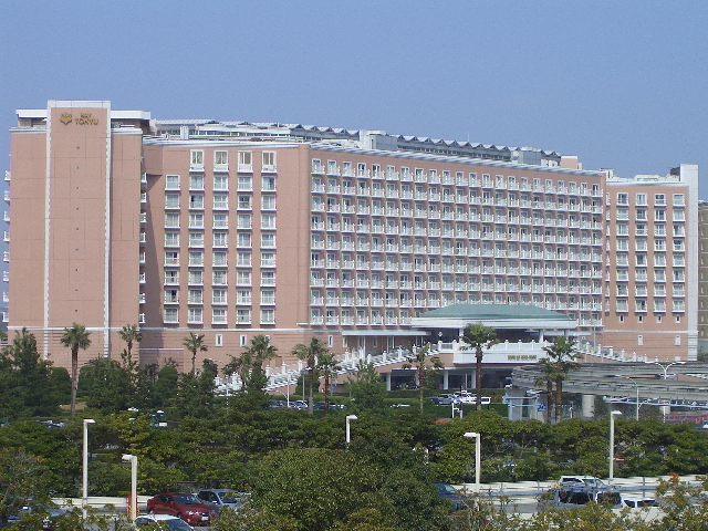 This is a picture of"TOKYO BAY HOTEL TOKYU". I took from one of rooms of Sheraton Grande Tokyo Bay Hotel.